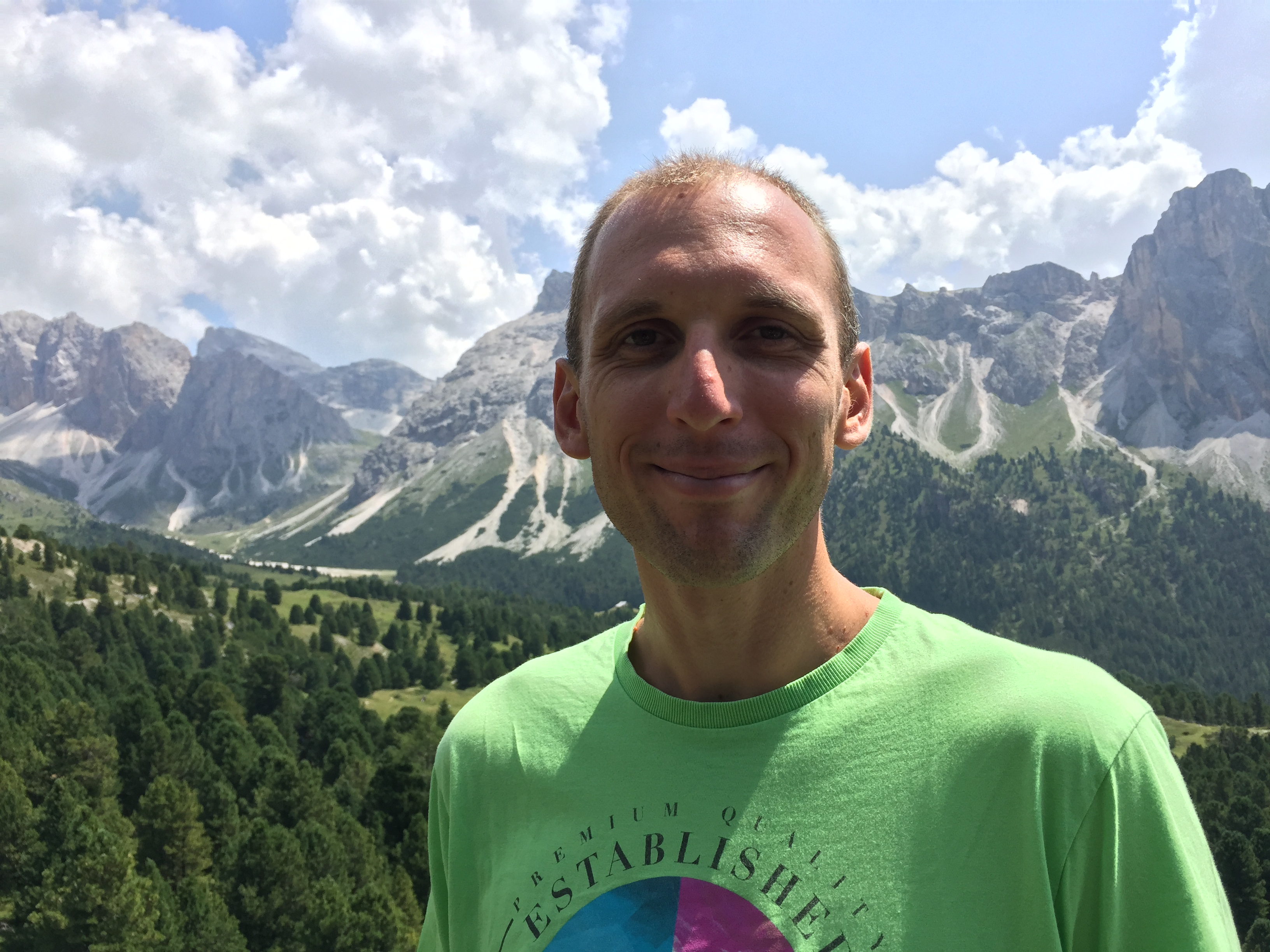 Matjaž Perc in July 2015, Val Gardena, South Tyrol